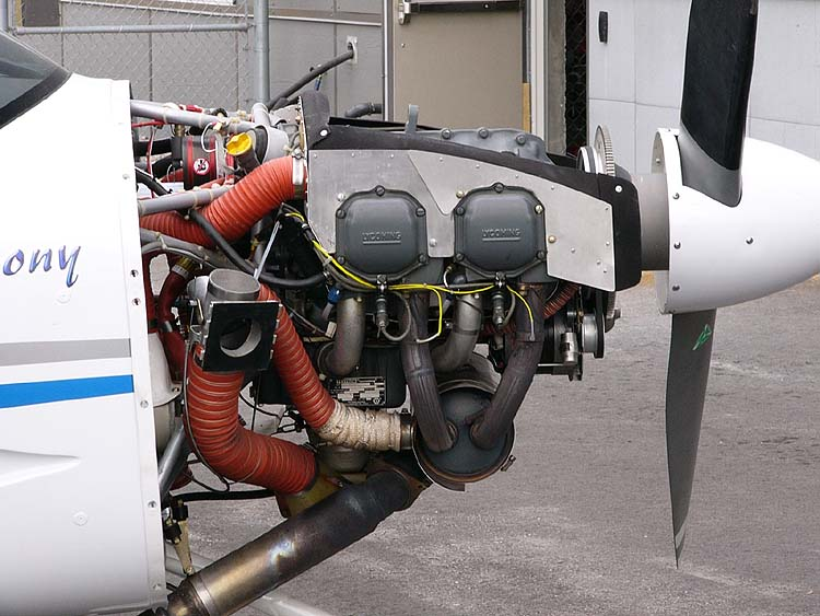 A Lycoming O-320-D2A installed in a Symphony SA-160. I took this photo at the Symphony plant in August 2005